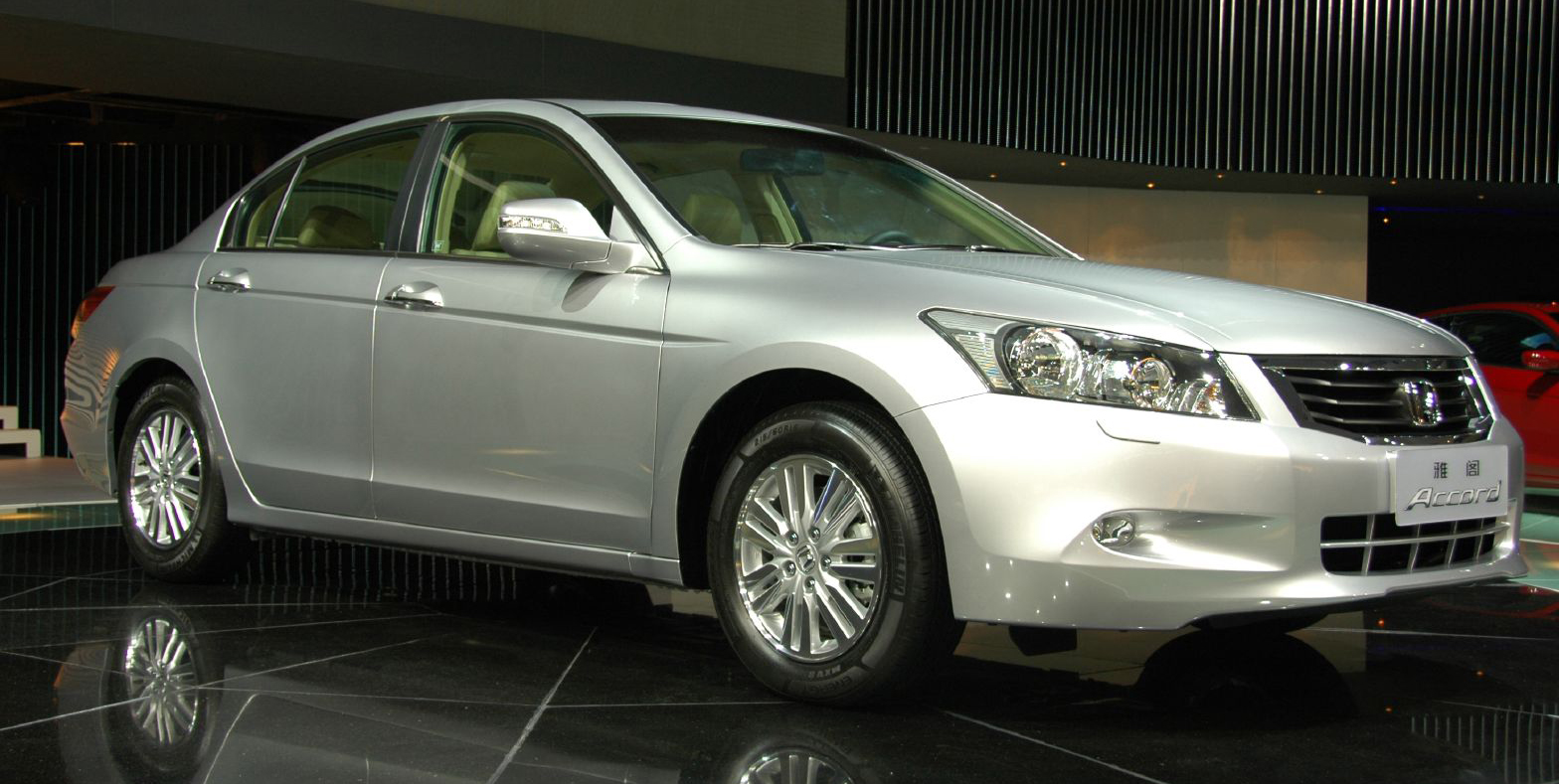 MY 2008 Guangzhou Honda Accord at 2007 Guangzhou Motor Show.